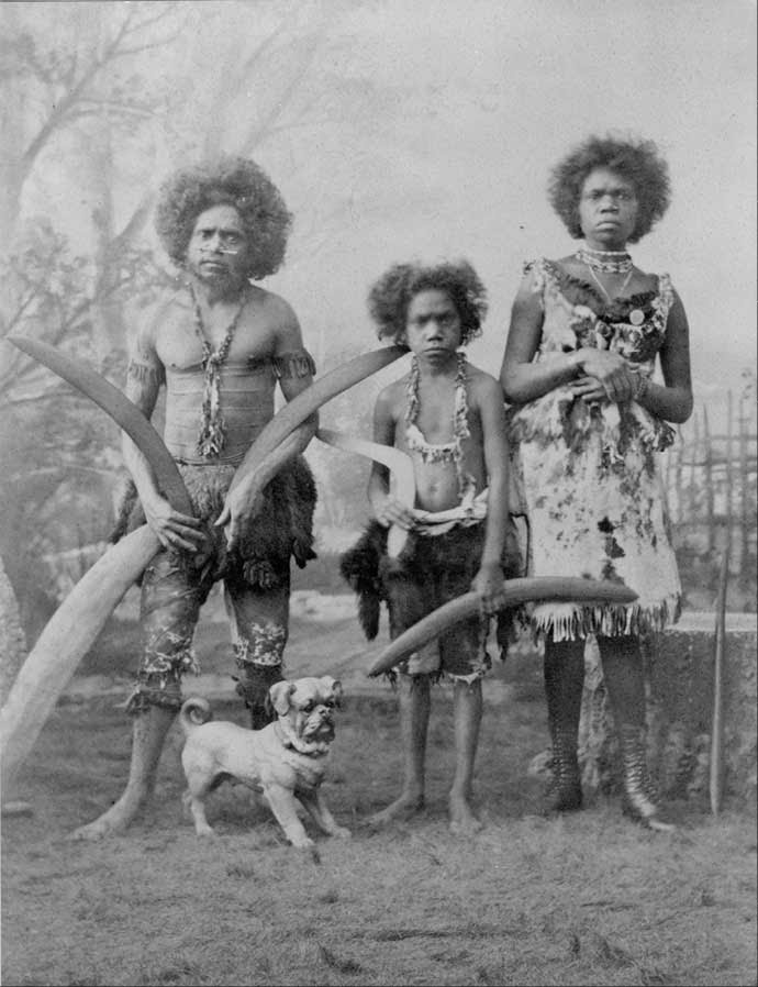 Prince Roland Bonaparte's photograph of three Aboriginal Australians from 1885 in Paris